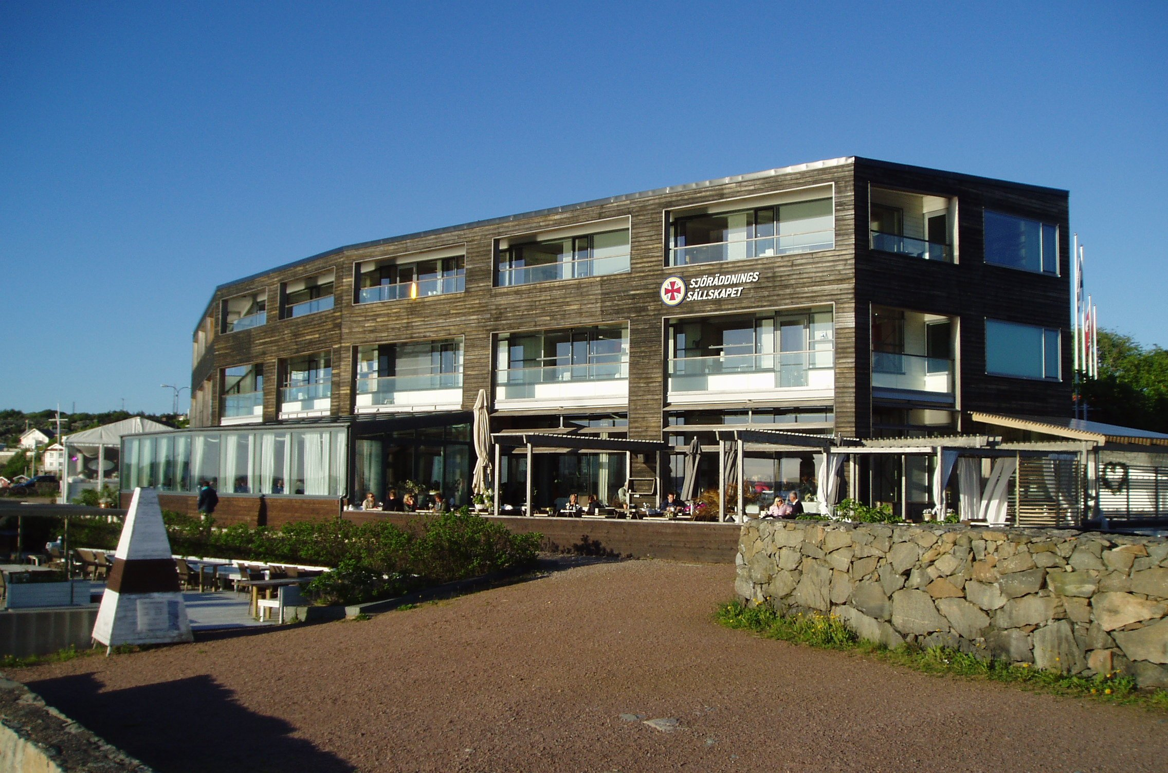 Swedish Sea Rescue Society office, Långedrag, Gothenburg